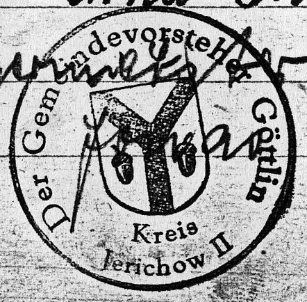 Seal of Göttlin, Germany